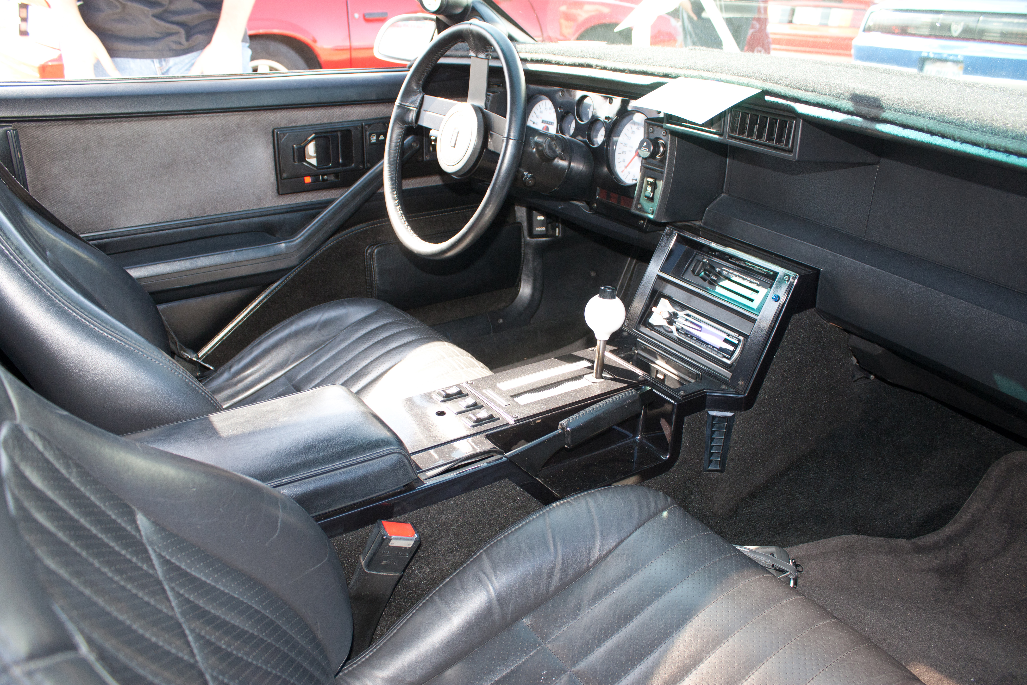 ThirdGen Norcal GTG